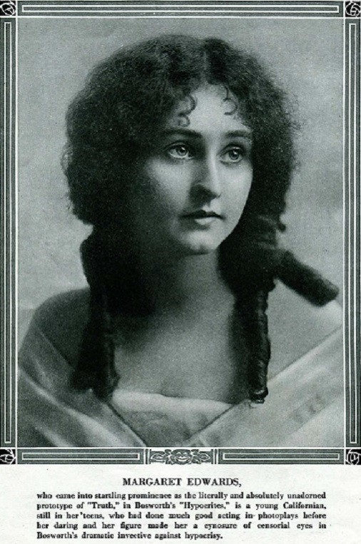 Margaret Edwards